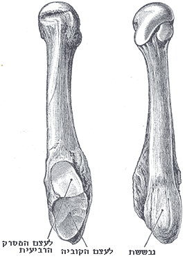 FIG. 288– The fifth metatarsal. (Left.)